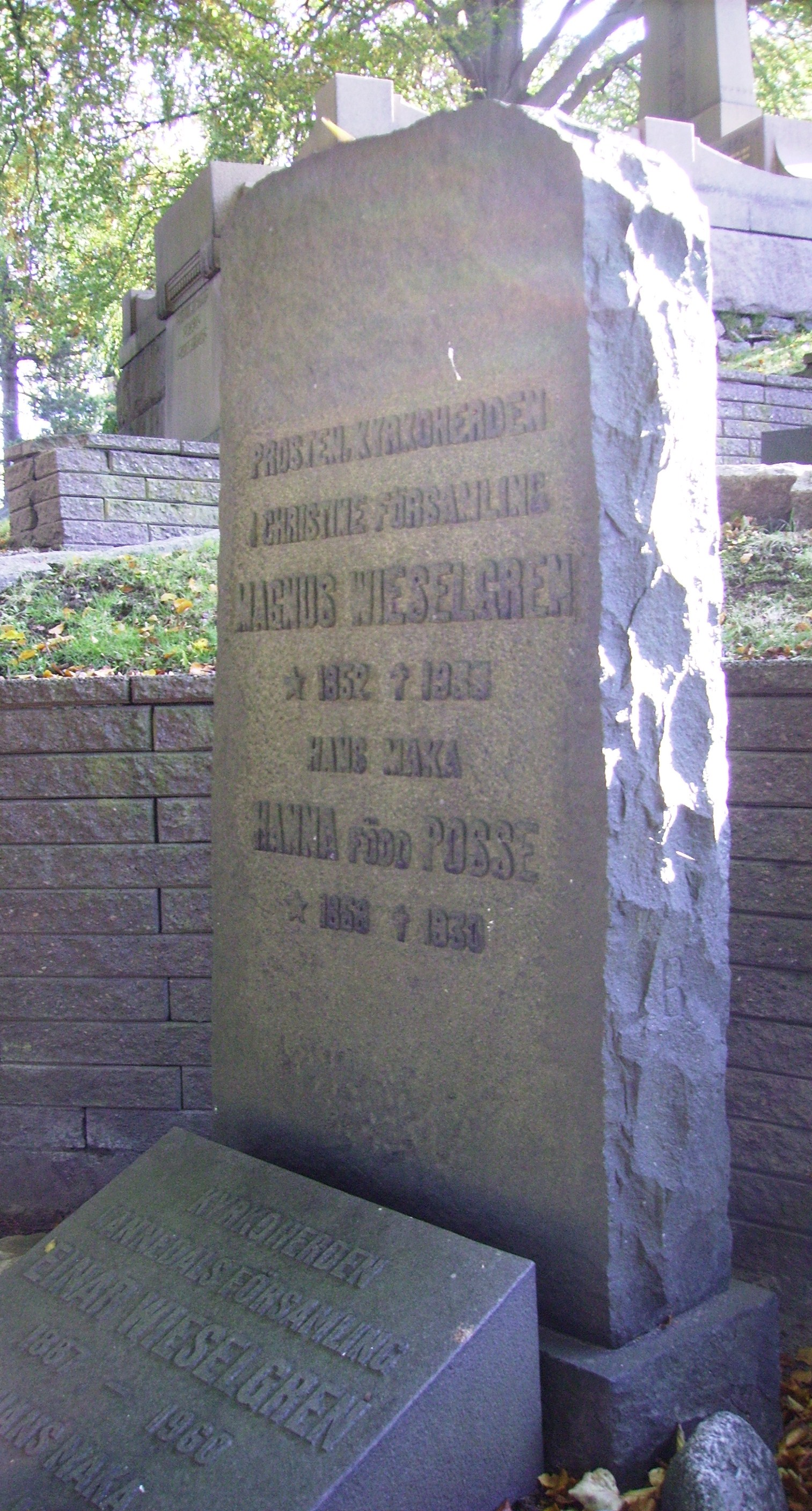 Picture of Magnus Wieselgren's grave at Östra kyrkogården in Göteborg